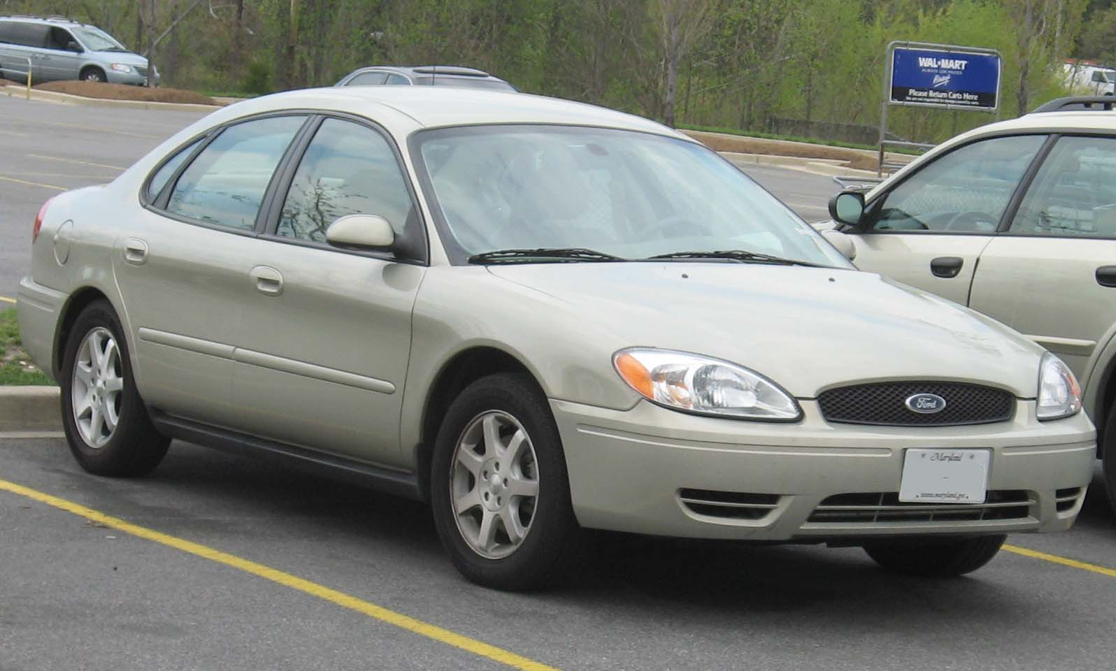 2004-2006 Ford Taurus photographed in USA.